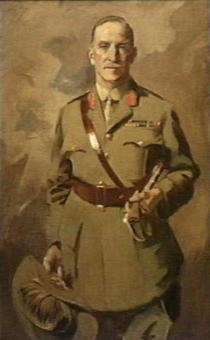 Painting of Lieutenant General Sir Harry Chauvel by James Peter Quinn (1870-1951), 1919.